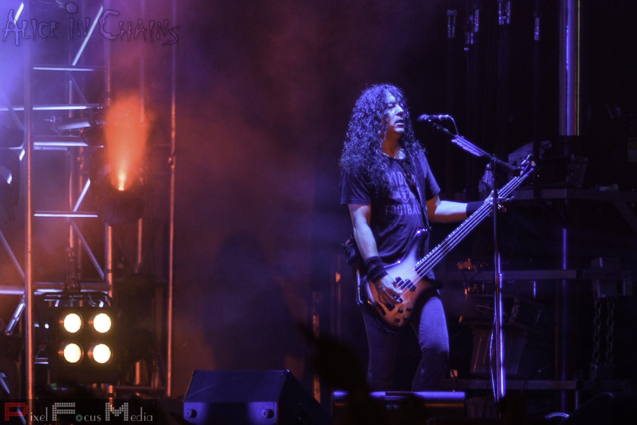 Mike Inez live in 2016